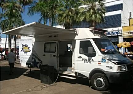 Iveco Daily Mk2 police van of Mato Grosso Police State - Brazil.